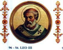 Portrait of Pope Leo III on the Basilica of Saint Paul Outside the Walls, Rome